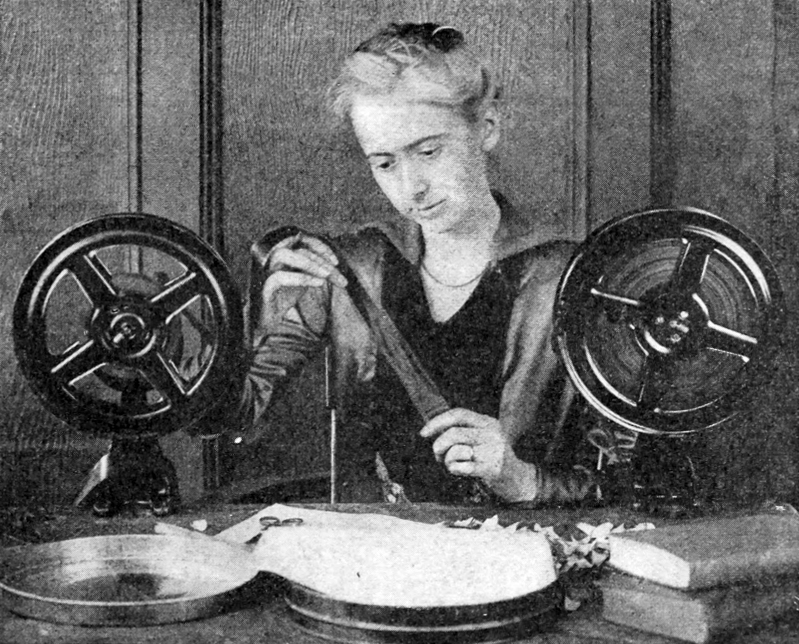 Photograph of film editor Hettie Gray Baker Caption: SHE LIVES IN THE DARK Hetty Gray Baker passes her life in the dark, scrutinizing and editing Fox pictures, and yet she is a merry lady with a fine sense of humor. When Fox pictures would be without her delicate touch, goshonly knows. She is the supreme authority, once the film is put into her hands, responsible only to Fox himself. How does one become a film editor? Well, you are born in Hartford, and work in a Public Library, and try Boston and don't like it, go back to Hartford and study law and don't like it, decide to write scenarios and succeed through persistence, and make the grand tour to California and meet Griffith and everything. And then Fox has a row with Herbert Brenon and needs someone with intelligence to edit "A Daughter of the Gods," and if your name is Hetty Gray Baker he sends for you to come from the Coast where you had a job in his studio, and there you are. Quite simple.